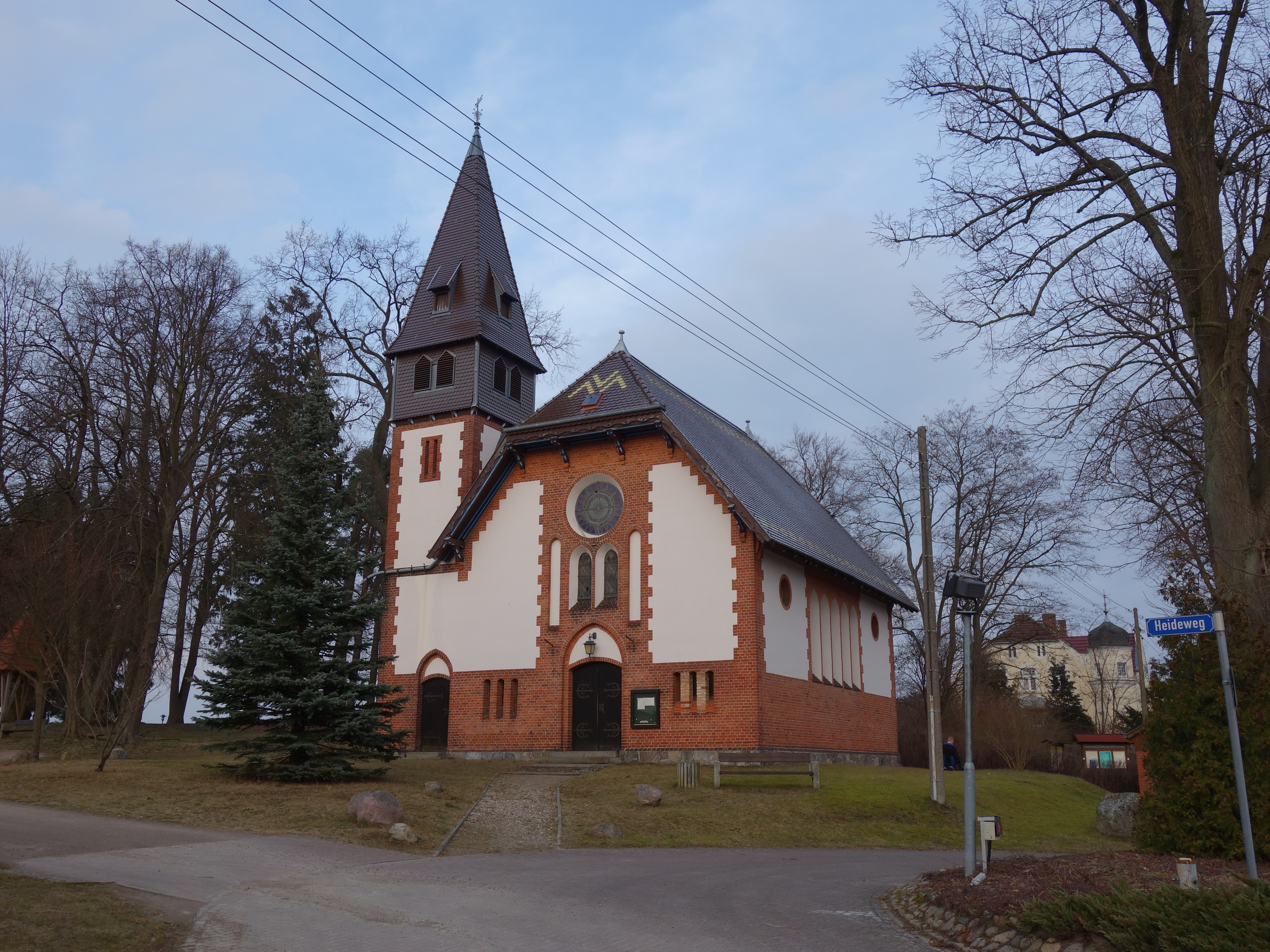 South-western view of Kleinzerlang church, Rheinsberg municipality, Ostprignitz-Ruppin district, Brandenburg state, Germany